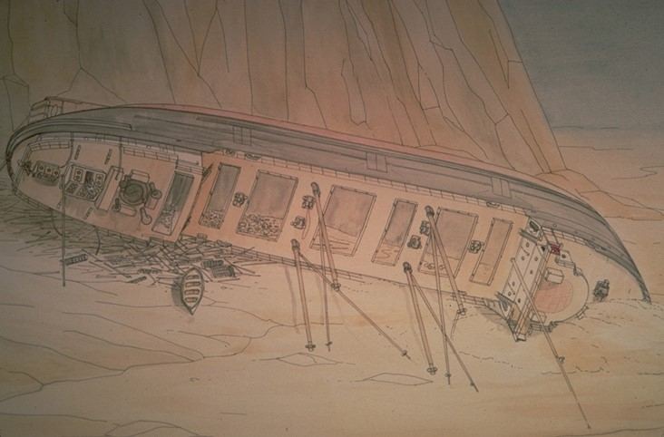 Drawing of the 1898 Kamloops wreckage on Isle Royale — shipwreck site within present day Isle Royale National Park, Michigan.